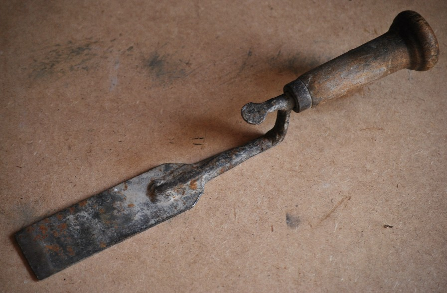 Pujavante from middle XX century.